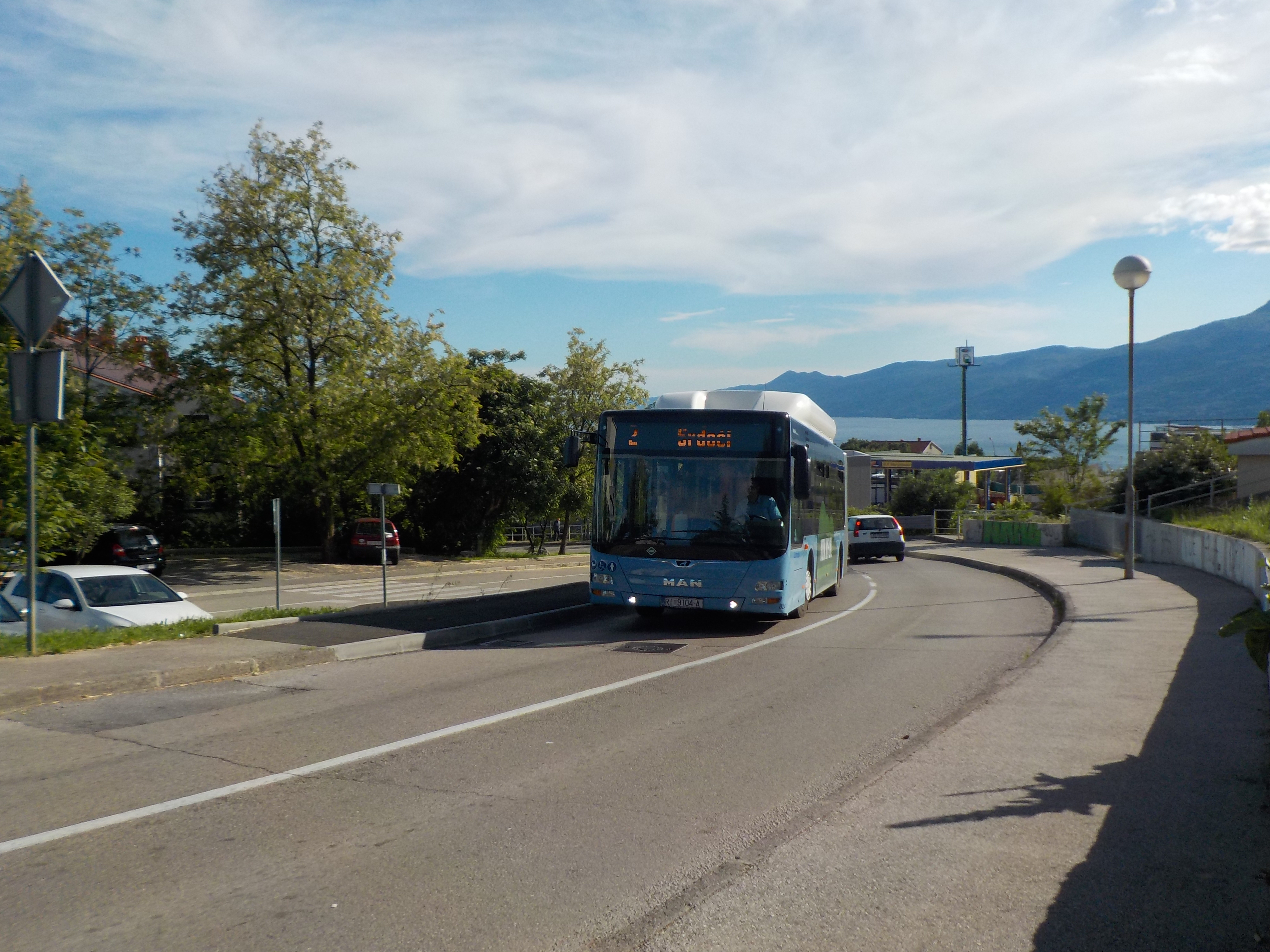 Bus MAN Lion's City G CNG in Rijeka